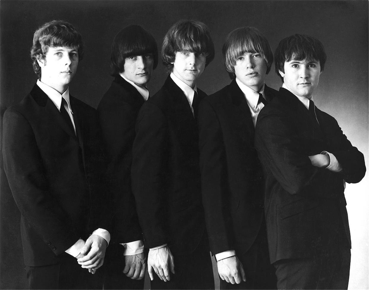 American rock band the Byrds in early 1965. Personnel from left to right: Chris Hillman (bass), Gene Clark (vocals, tambourine, guitar), Roger McGuinn (12-string guitar, vocals), Michael Clarke (drums) and David Crosby (rhythm guitar, vocals)